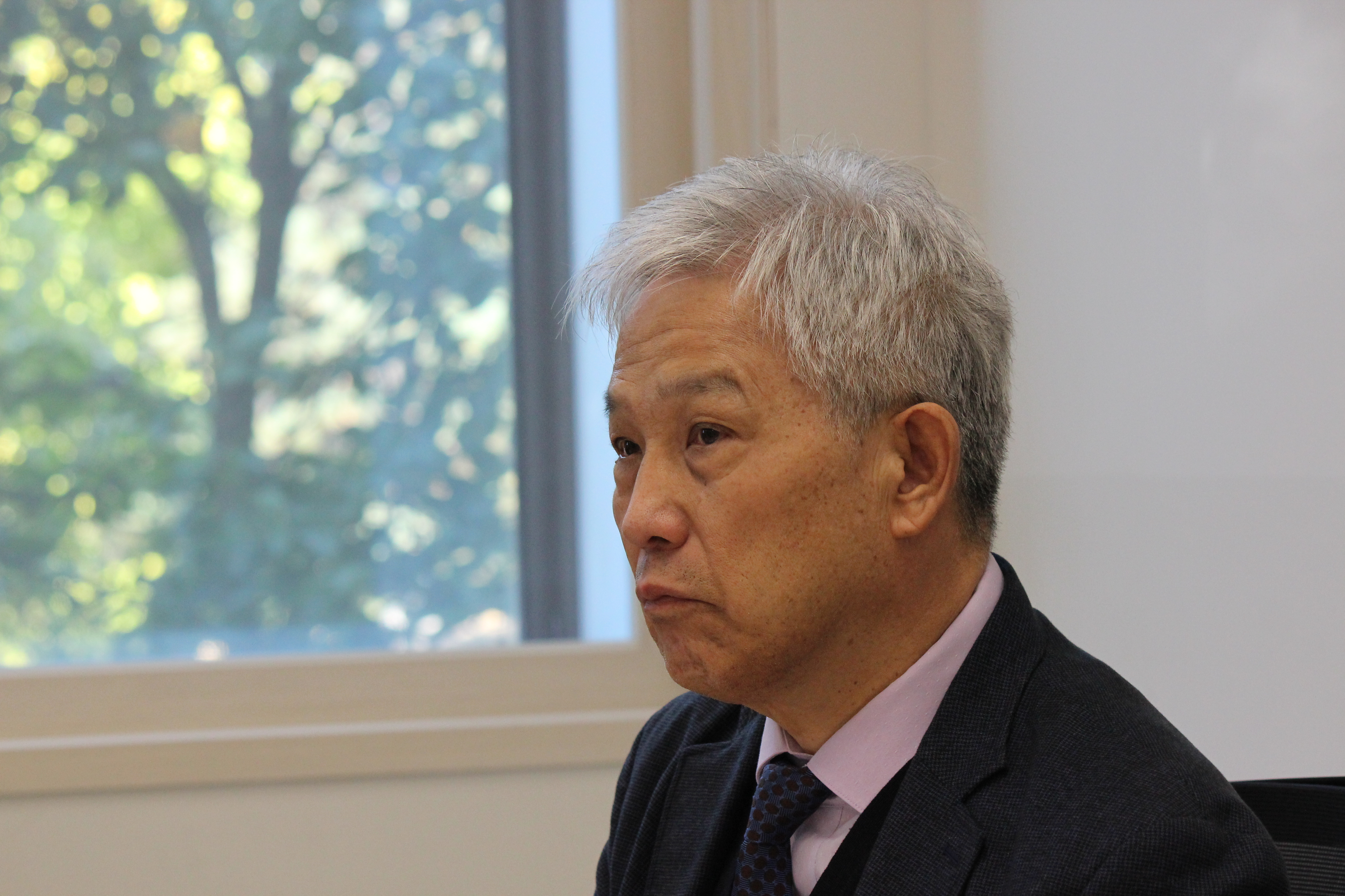 Dr. BongGun Cho in Kwangshin University